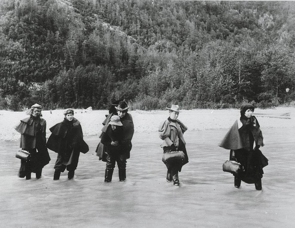 Actresses en route to the Klondike